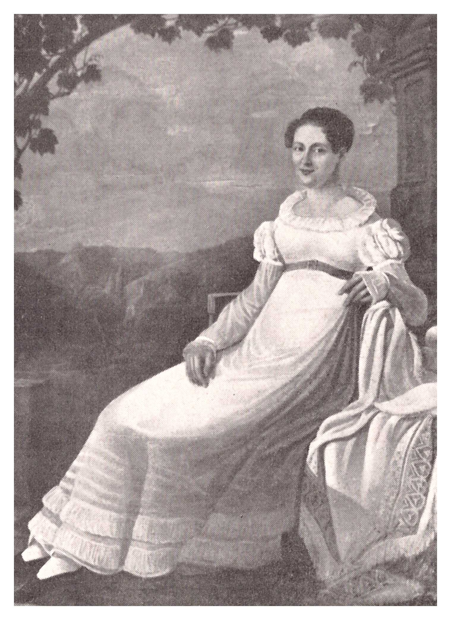 Eleonore Ernestine Auguste Wilhelmine Feuerlein (born 1790, died 1870) married 1819 Ferdinand von Pistorius (born 1767; died 1841). In Stuttgart she was known as Seegassenkönigin (Queen of Seegasse). Seegasse was the street where her house in Stuttgart was located